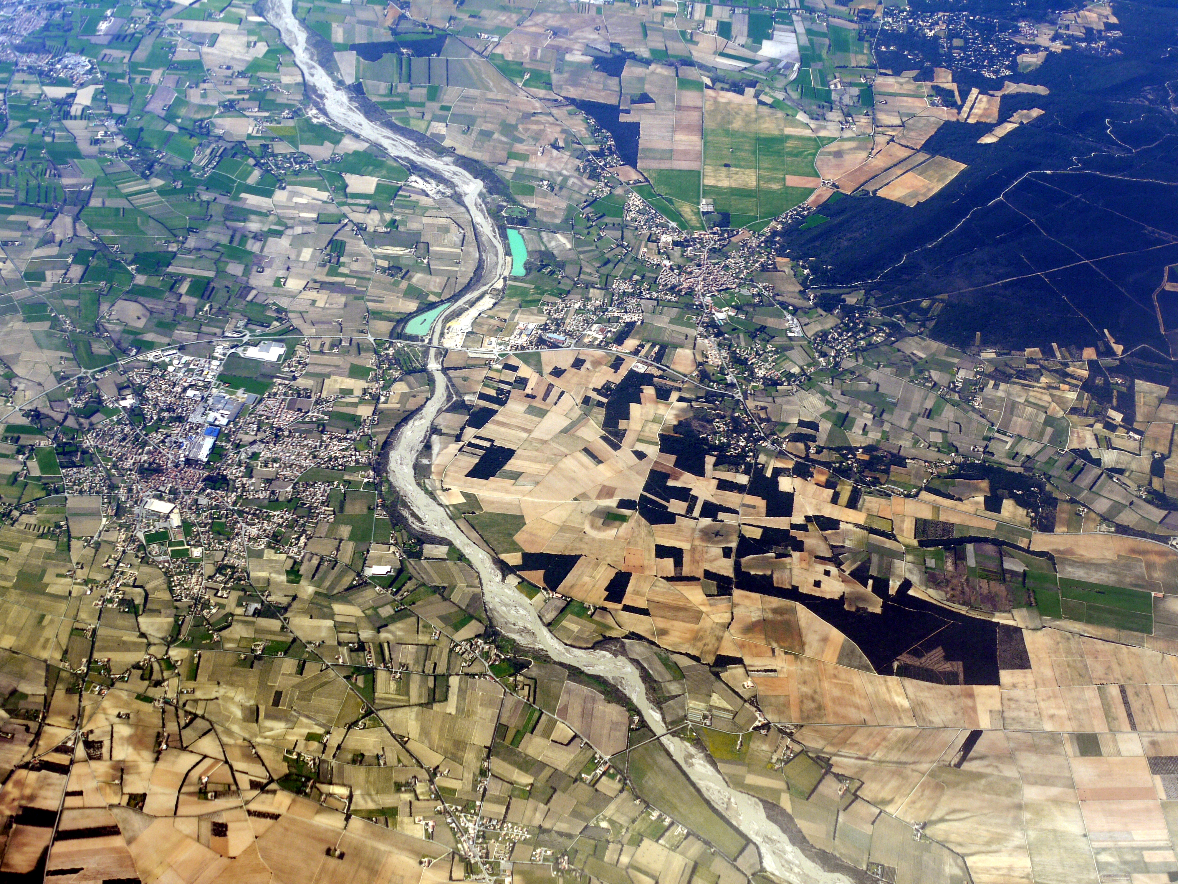 Sérignan-du-Comtat and Camaret-sur-Aigues, photograph taken from the sky, on the fly line between Marseille and Stockholm.